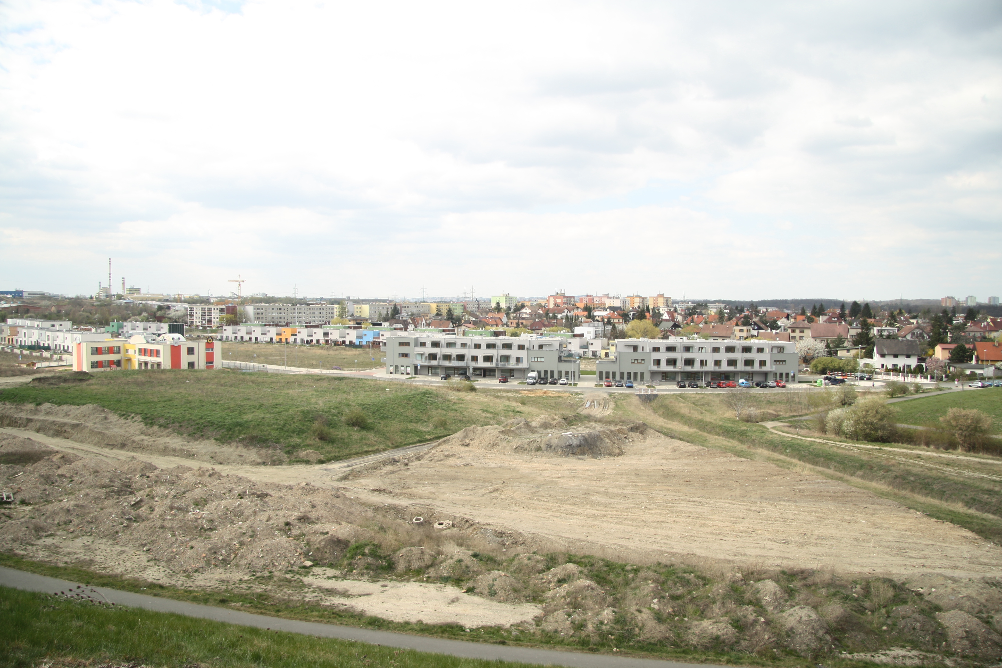 Overview of Jahodnice in Hostavice, Prague.